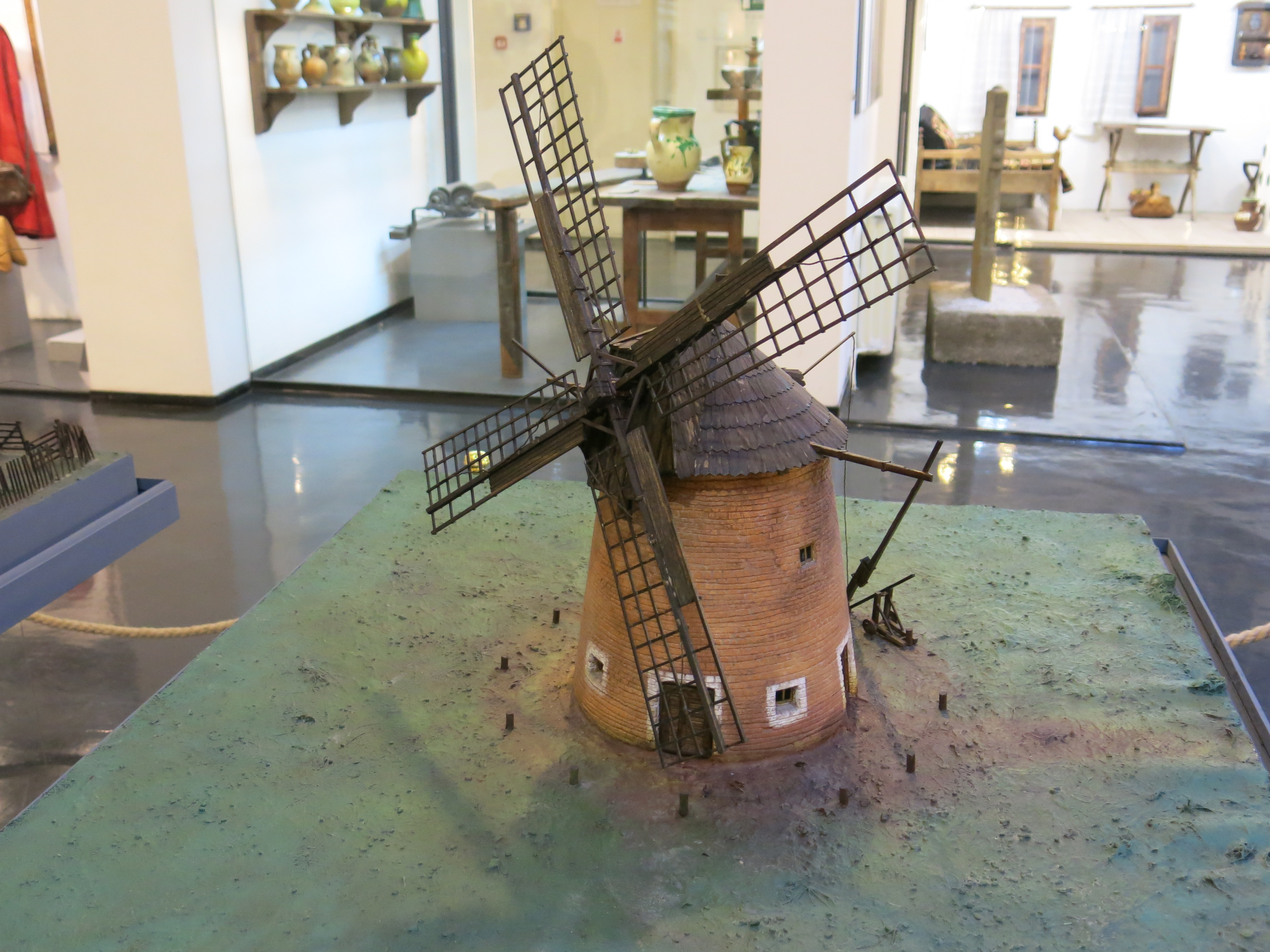 Ethnografic Museum in Belgrade, Serbia